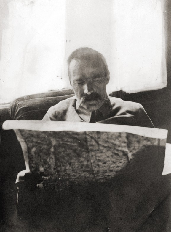 Józef Piłsudski during Battle of Warsaw 1920